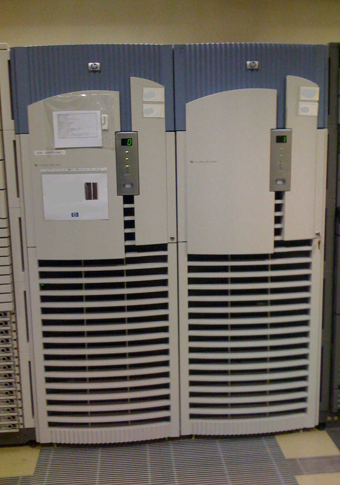 HP Superdome, PA-RISC model, photographed by me inside one of the datacenters of a very big italian bank